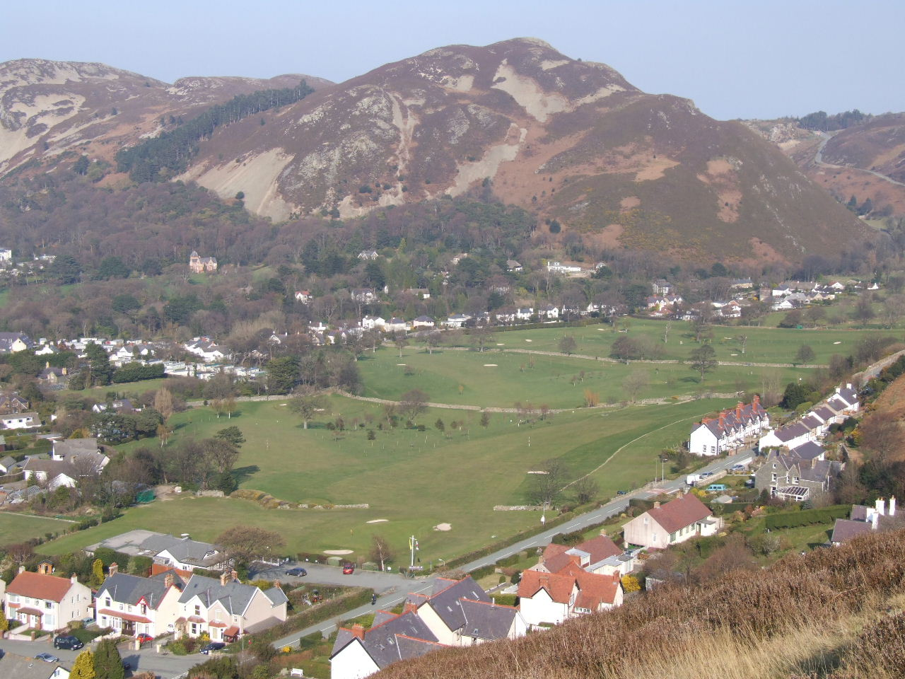 Penmaenmawr Golf Club with Yr Alltwen hill, in Dwygyfylchi, Penmaenmawr, Conwy County, Wales.